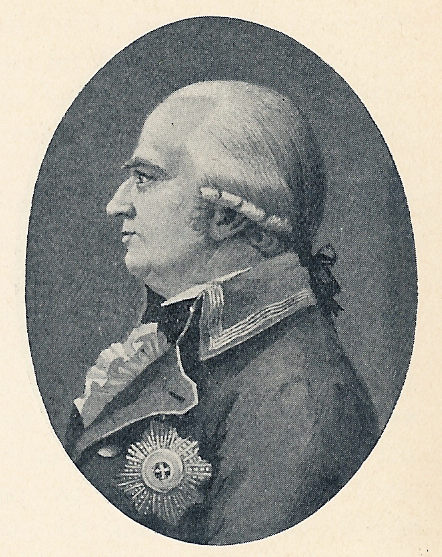 Prince Charles of Hesse-Kassel.